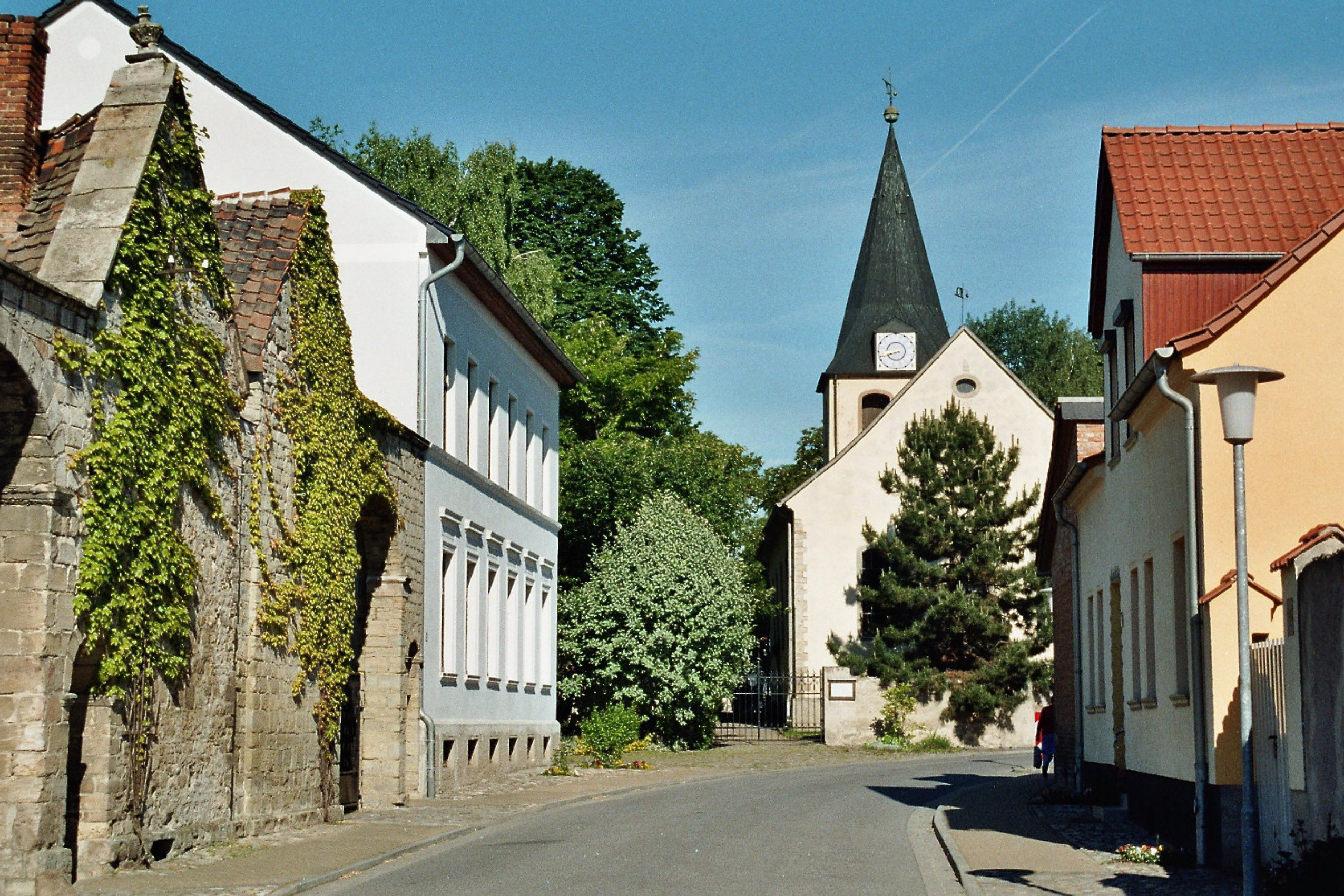 Bottmersdorf, the Saint Andrew church